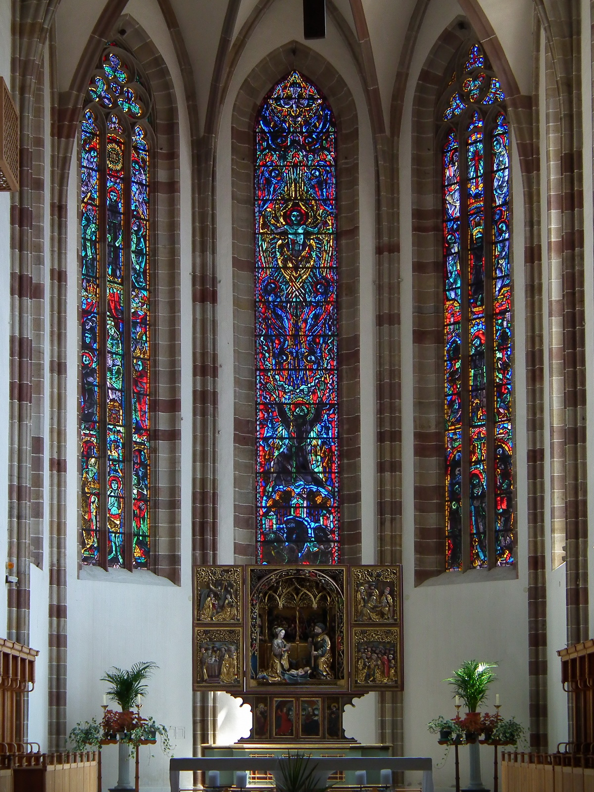 Church of the Franciscan Order Native nameFranziskanerkirche/Chiesa dei FrancescaniLocationBolzano, ItalyCoordinates46° 30′ 02.61″ N, 11° 21′ 15.03″ E